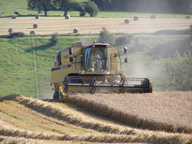 Cereal harvest in Somerset. This is between Stanton Prior and Priston looking South. The combine is a New Holland TX62.